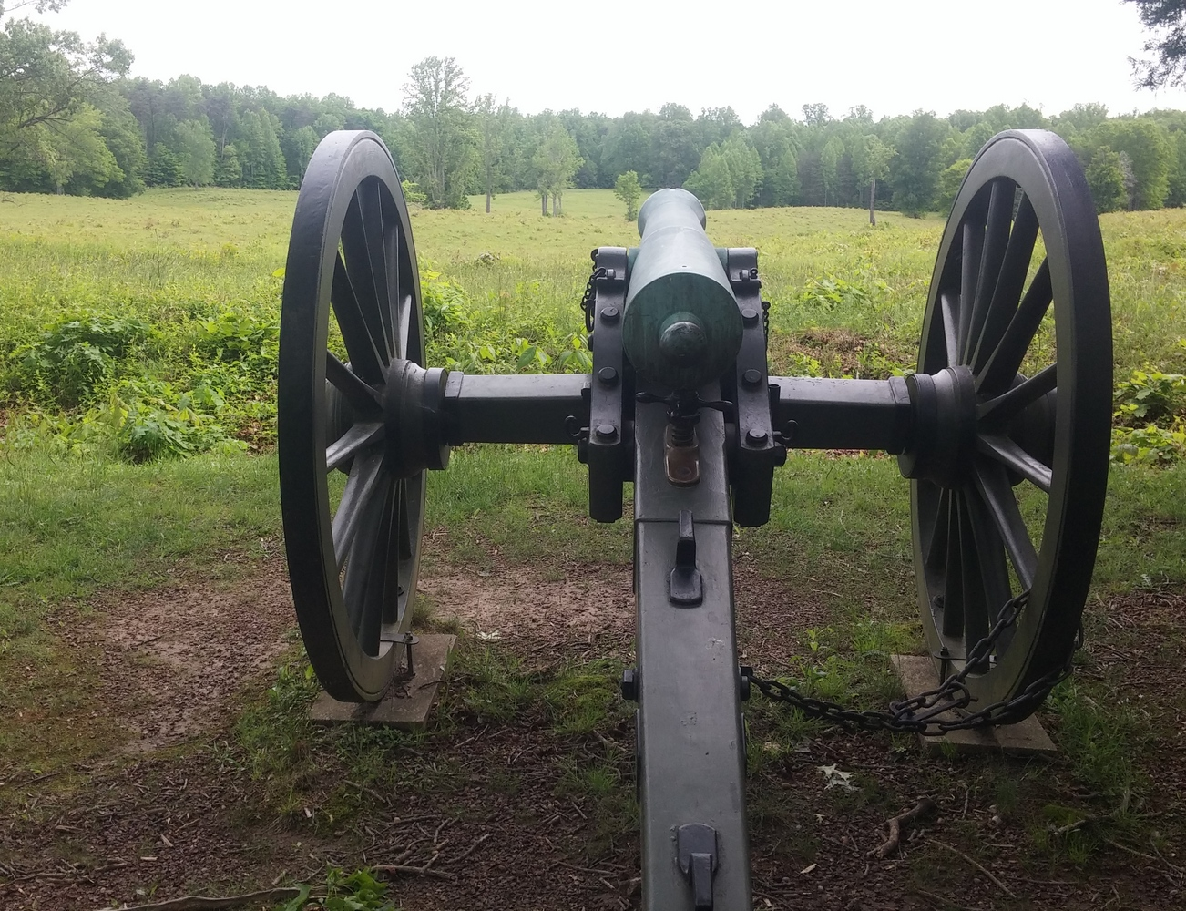 Confederate gun at "East Angle" at Spotsylvania.